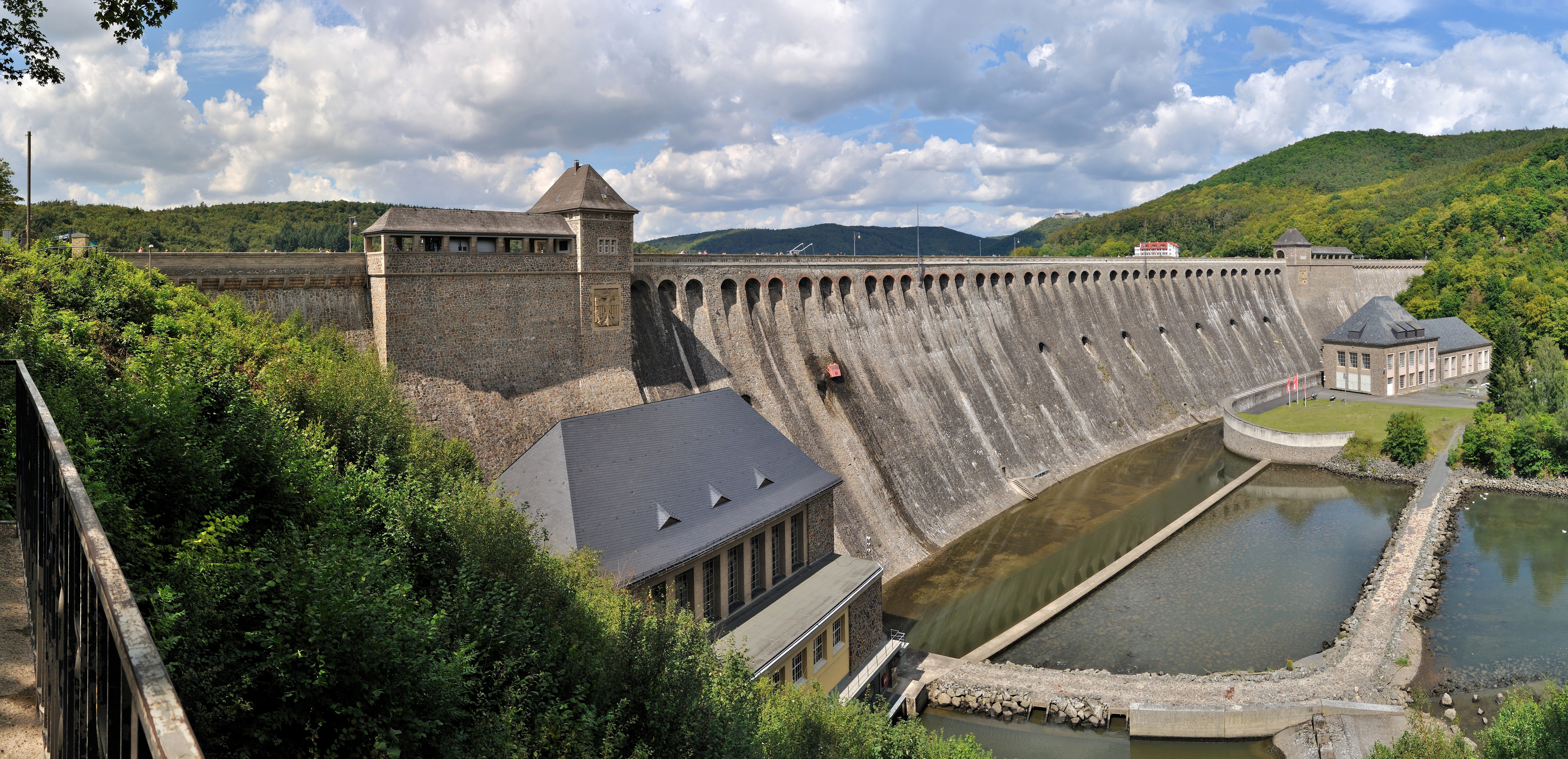 Edertal (Hesse, Germany) – Edersee Dam – south-east side.